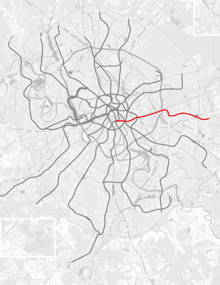 8 Kalininskaya line of Moscow Metro. The construction work of joining this with #8A Solntsevskaya line has not yet started and is unknown when it will start.